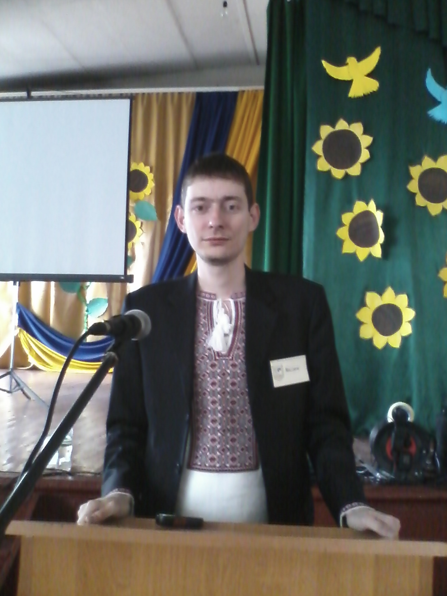 Соціальний педагог закладу "Вінницький технічний ліцей" квітень 2015 р., м. Конотоп Сумскої обл.